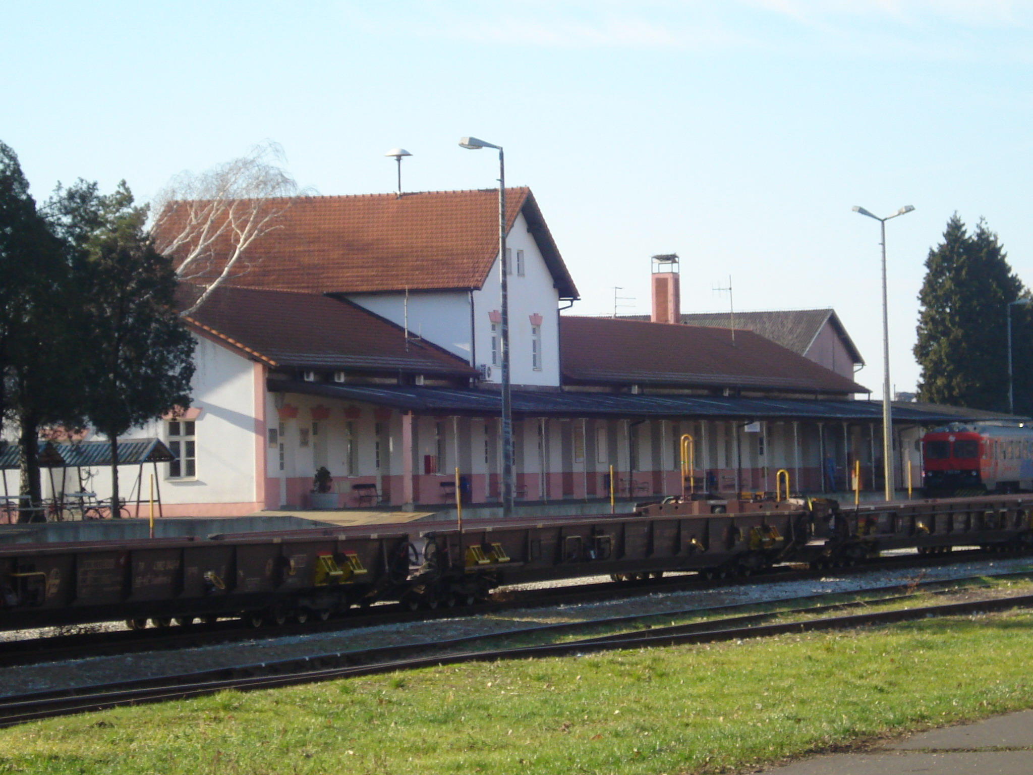 Čakovec railway station, Medjimurje County, northern Croatia - north side